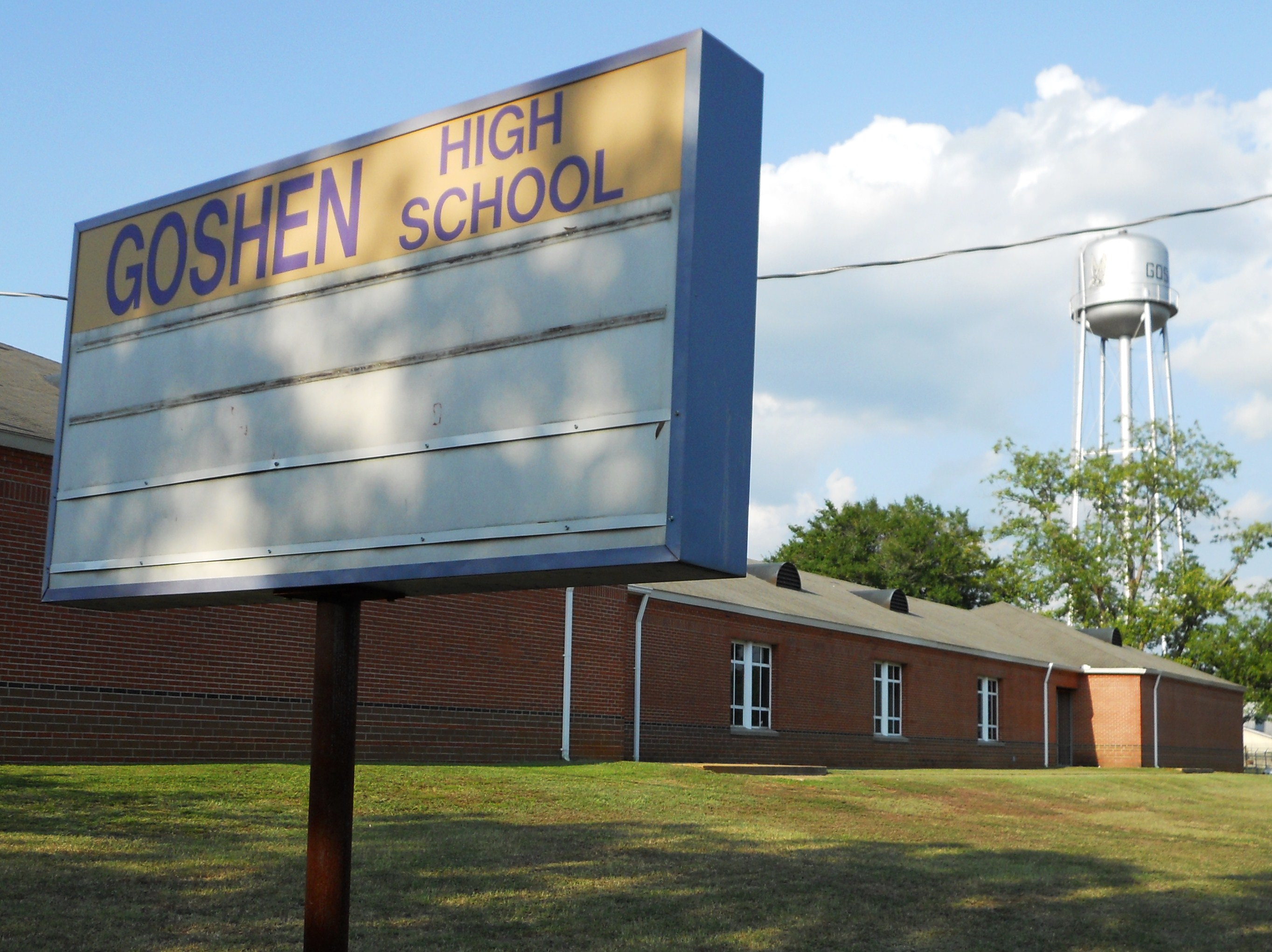 This is a photograph of Goshen High School in Goshen, Alabama